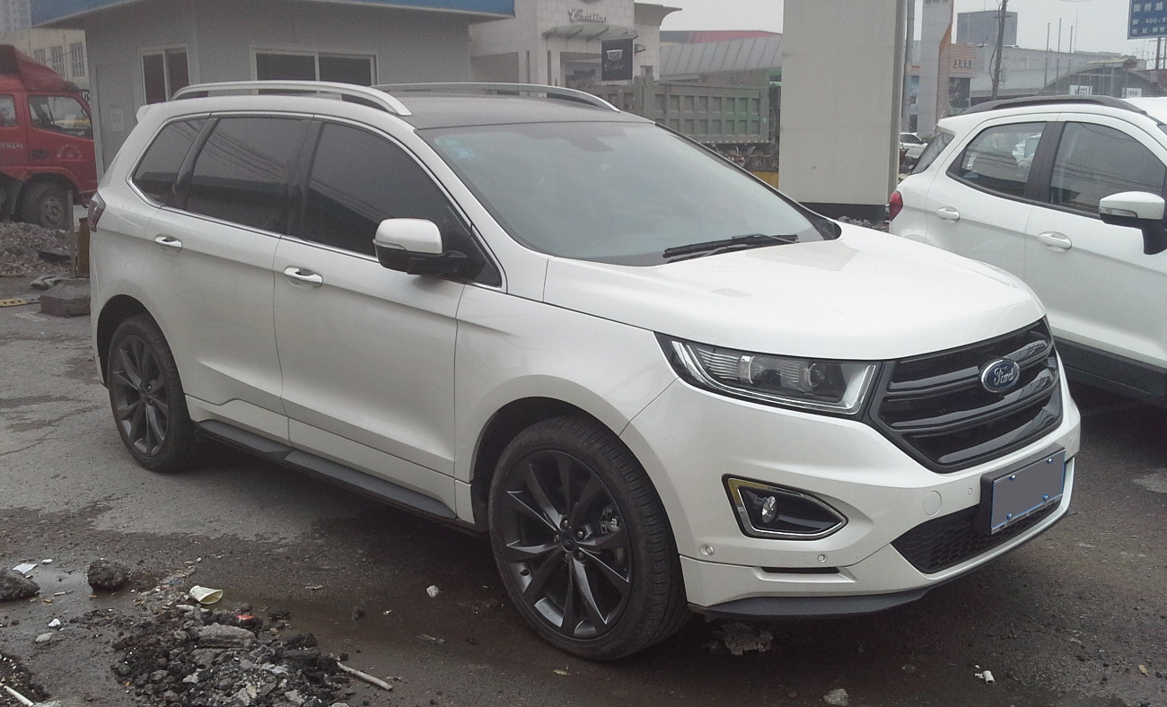 Ford Edge II CN photographed in Shanghai, China.